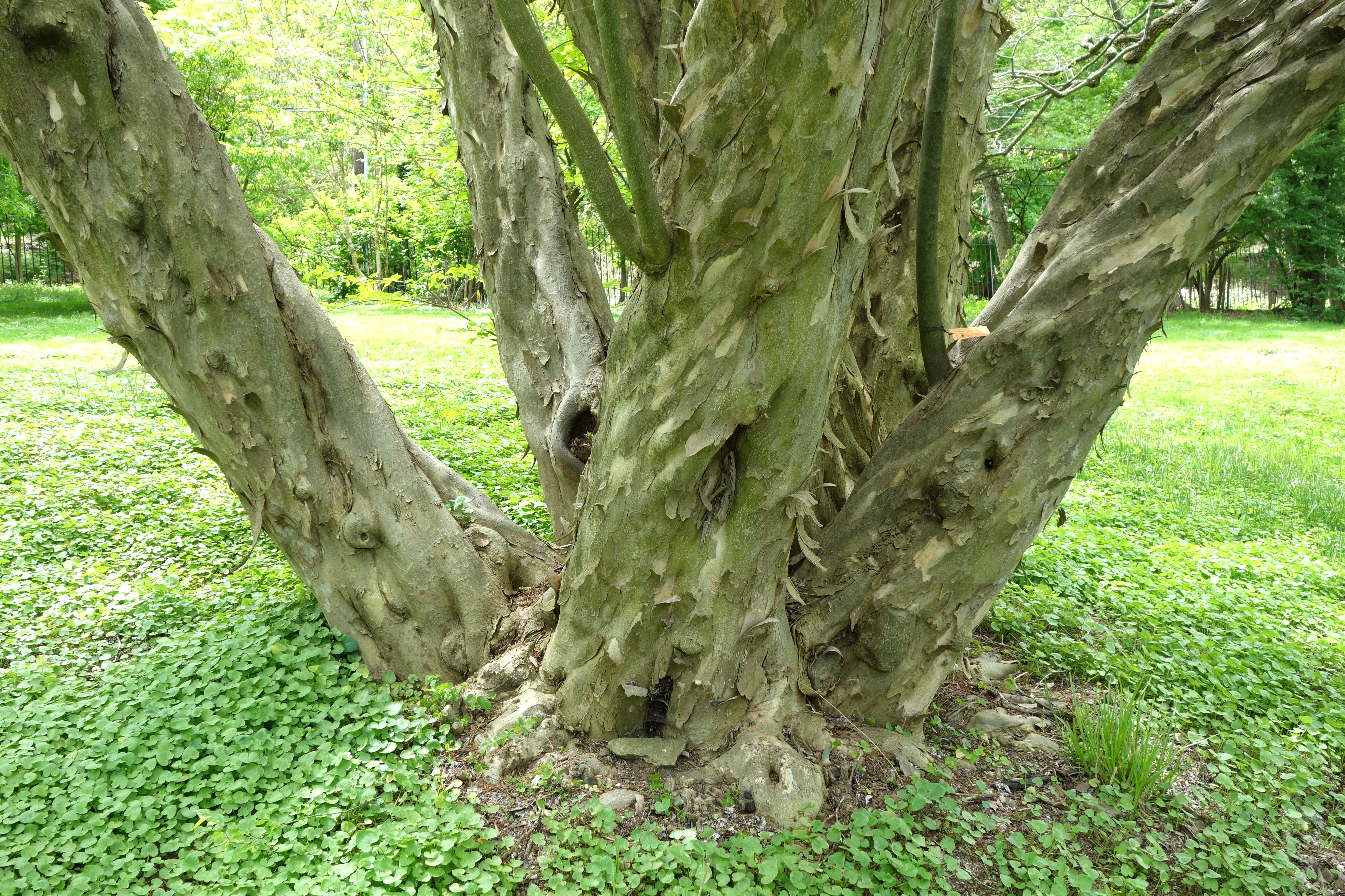 Botanical specimen in the Morris Arboretum, 100 East Northwestern Avenue, Chestnut Hill, Philadelphia, Pennsylvania, USA.